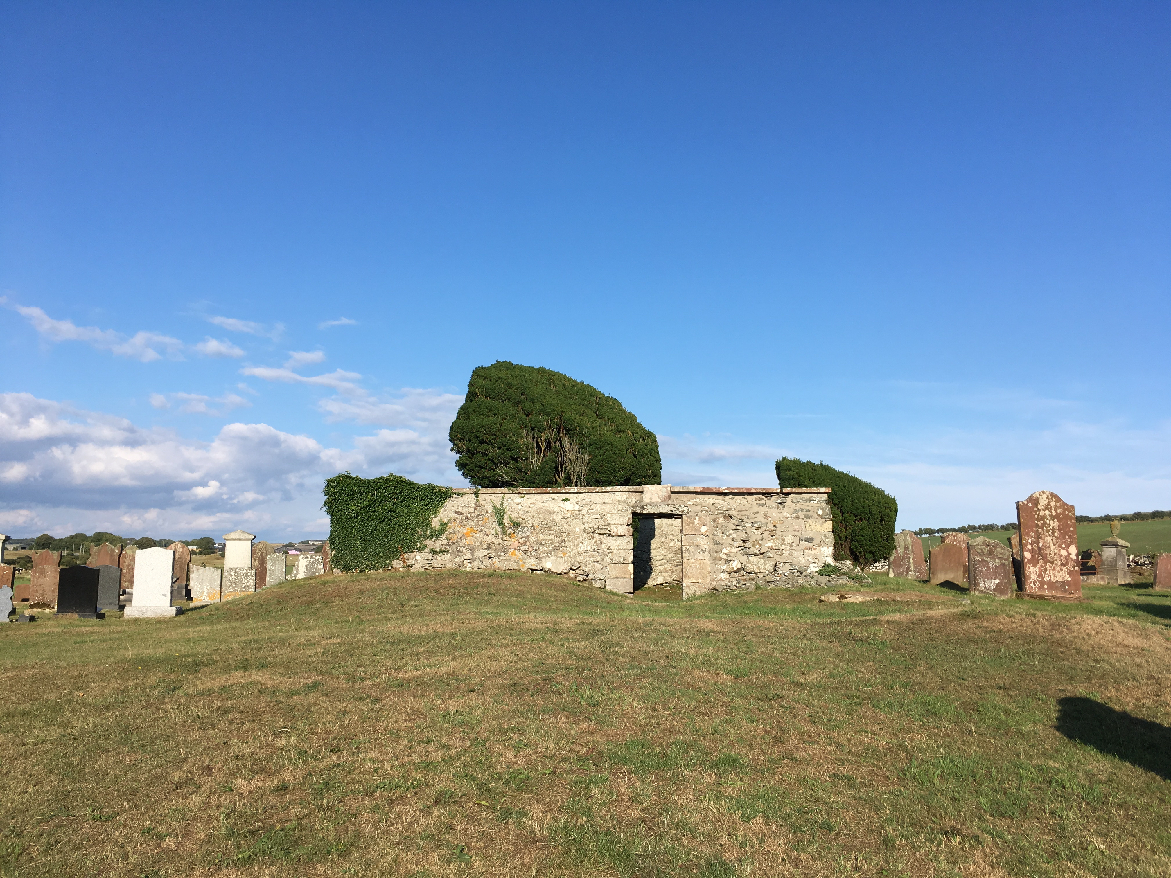 Kirkandrews, Old Church And Burial-ground Wikidata has entry Q17780450 with data related to this item.